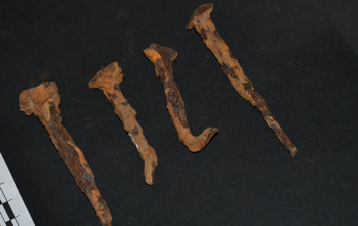 Photo taken by Kyra McCormick, Becca Leon, and LisaMarie Malischke